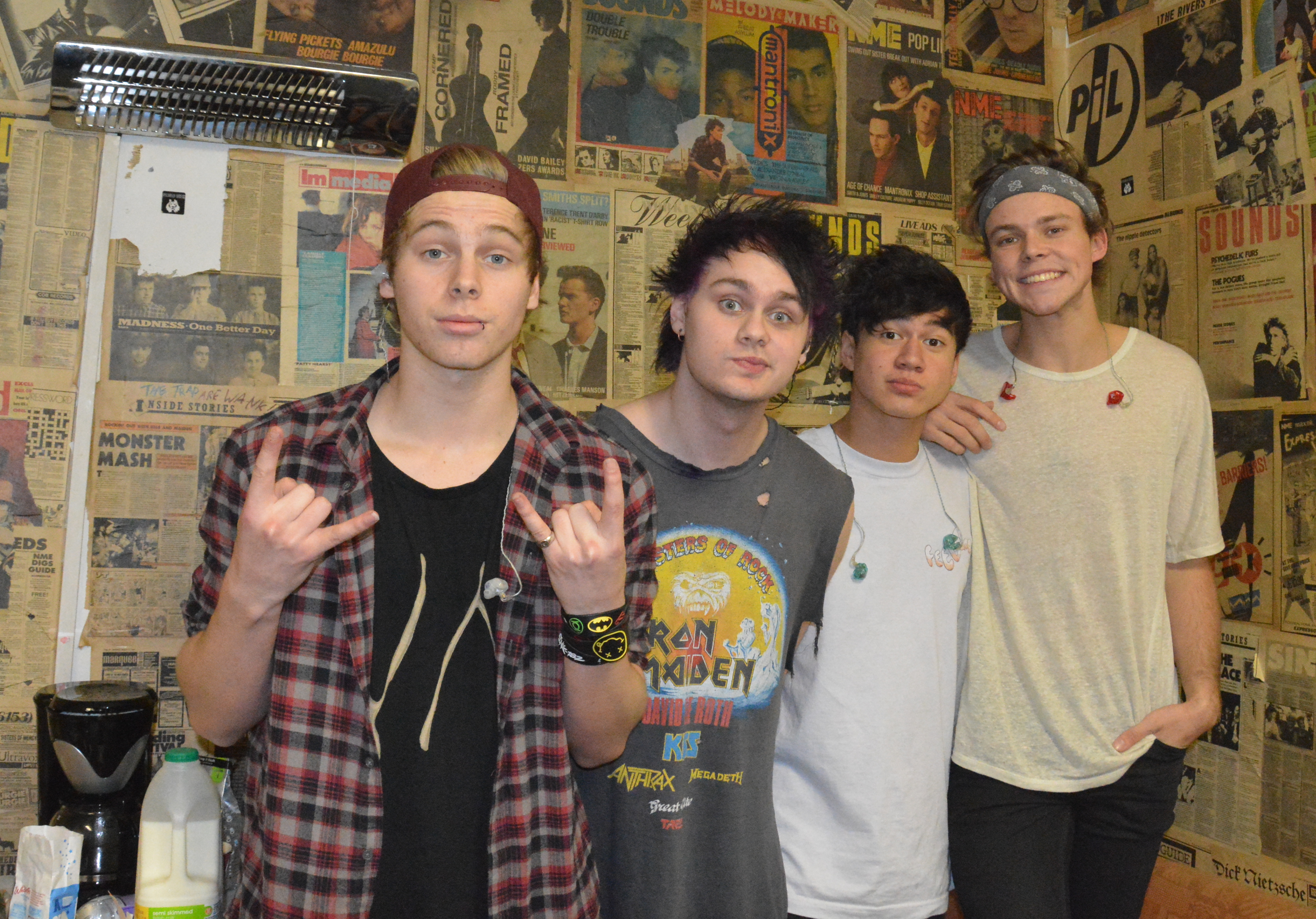 Five Seconds of Summer backstage on their 2014 UK Tour.